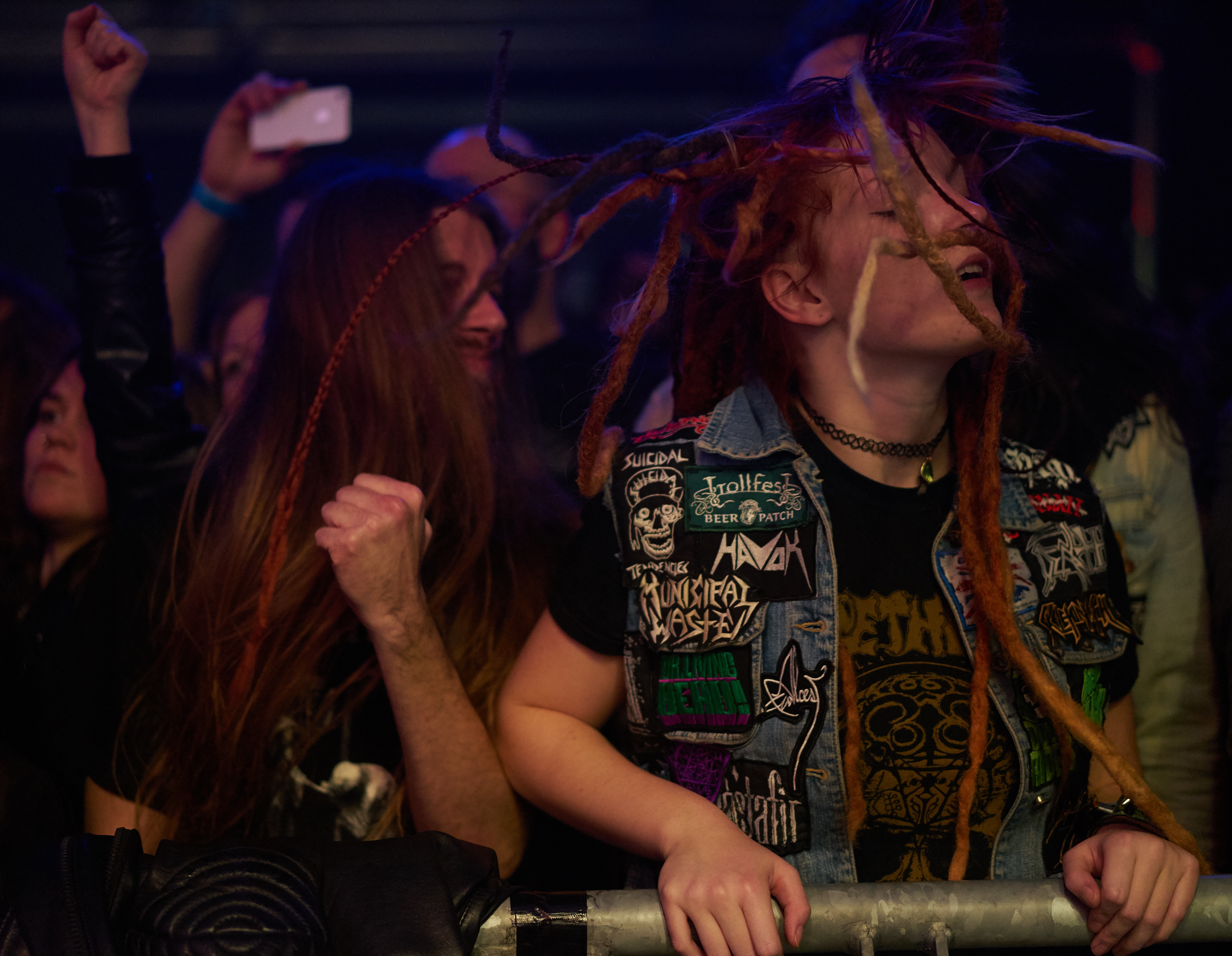 Visitors of the tenth "Hammer of Doom"-Festival in Würzburg, Germany, 2015